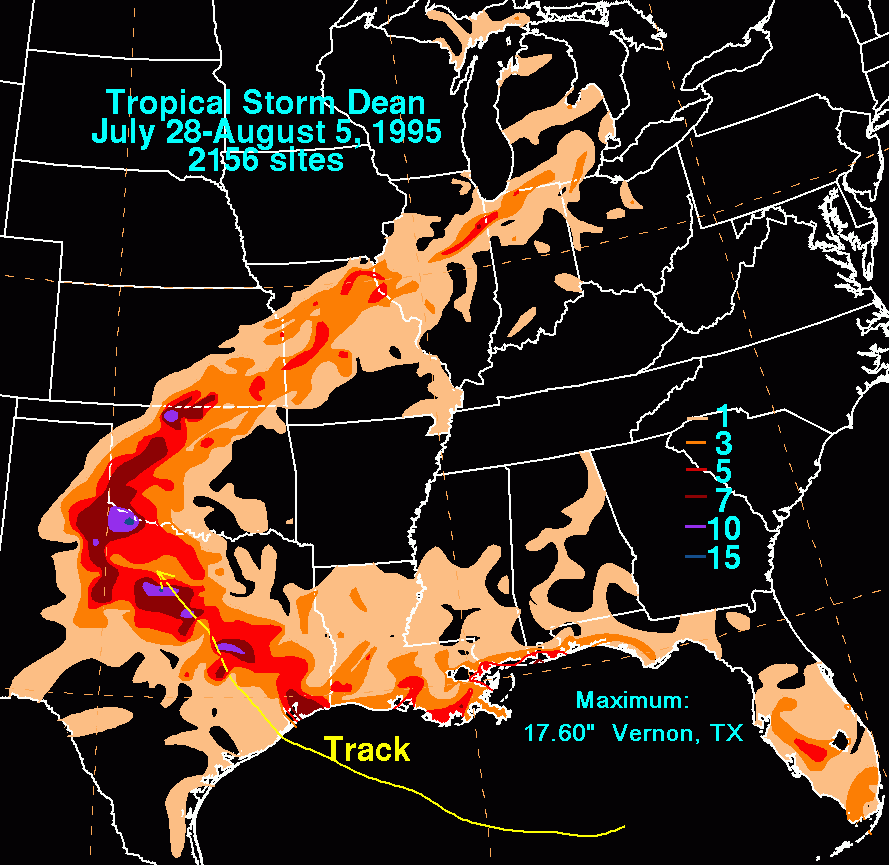 Storm total rainfall map of Tropical Storm Dean during July and August 1995.